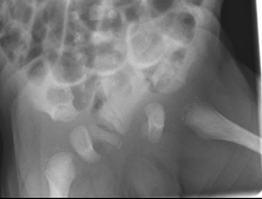 Chondrodysplasia punctata Conradi-Hünermann, pelvic X-ray, newborn; stippled calcifications around femoral metaphysis bilaterally